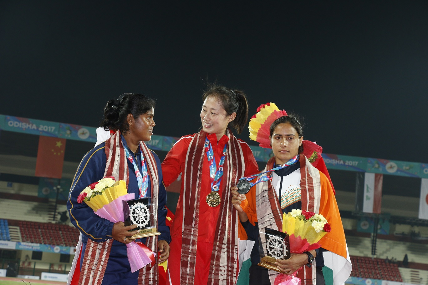 Ling Lingwei Of China, Gold Medalist, to The Left Nadeesha Dilhani Lekamge Of Sri lanka With Silver And Annu Rani Of India,the Bronze Medalist during 22nd Asian Athletics Championships in Bhubaneswar.